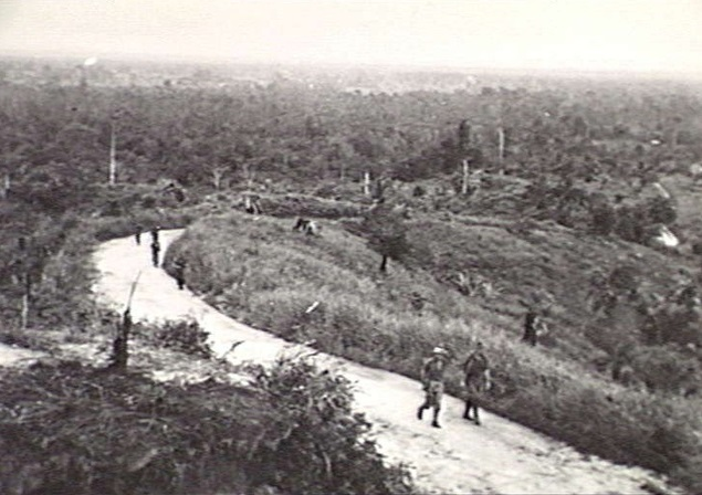 A patrol from the Australian 2/13th Infantry Battalion around Miri, in Borneo, after carrying out a recce of a location for the Japanese surrender